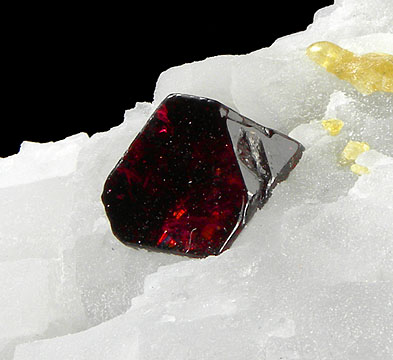 Spinel, Calcite Locality: Mogok, Pyin Oo Lwin District, Mandalay Division, Burma (Myanmar) (Locality at ) Size: 6.2 x 6.2 x 3.2 cm. It has been next to impossible to obtain fine quality Spinel specimens from Burma these days it seems. Matrix specimens of Spinel are uncommon, but to find gem quality crystals on matrix is extremely difficult. This piece hosts a classic Burmese "Ruby Spinel" crystal with very sharp, defined, lustrous, octahedral faces and a gemmy rich purplish-red color. The crystal sits atop a matrix of massive white/grey Calcite as is typical for this locality. This piece was mined around 2000, and is one of the finest Spinels from the Rich Kosnar collection. Ex. Richard Kosnar Collection.